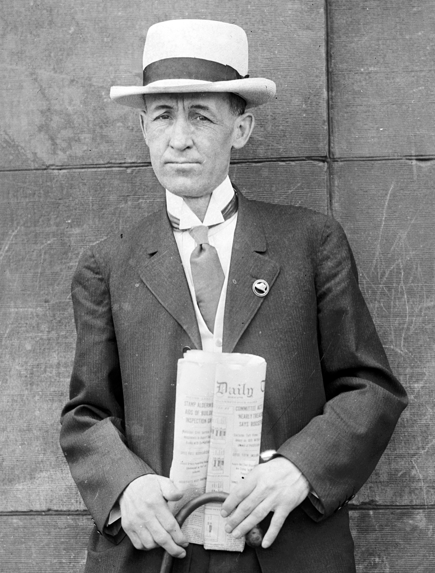 William E. Glasscock, Governor of West Virginia